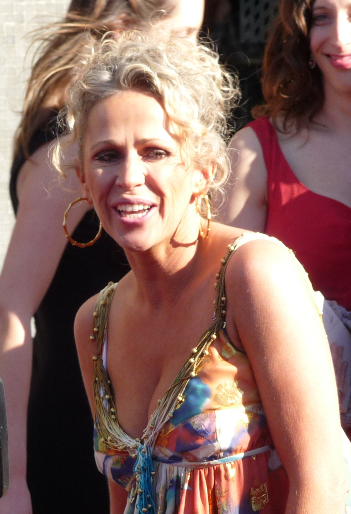 Lucy Benjamin at the BAFTA TV Awards 2009